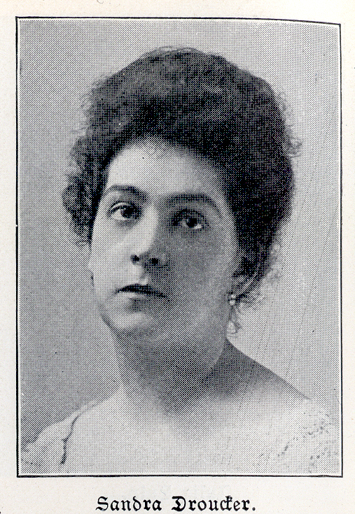 Sandra Droucker (1875-1944), Scan from Spemanns goldenes Buch der Musik, 1906